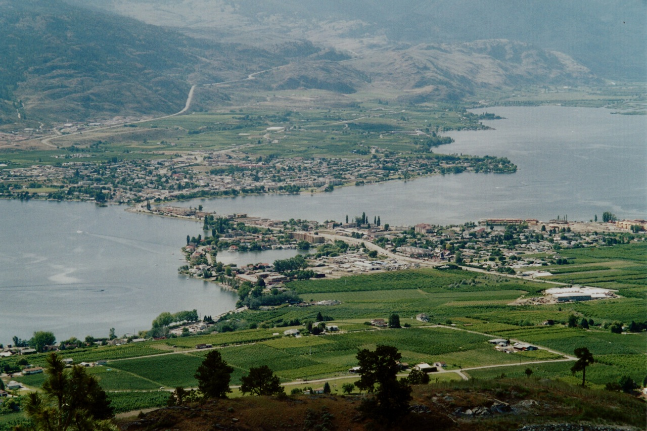 Osoyoos from Anarchist Mountain